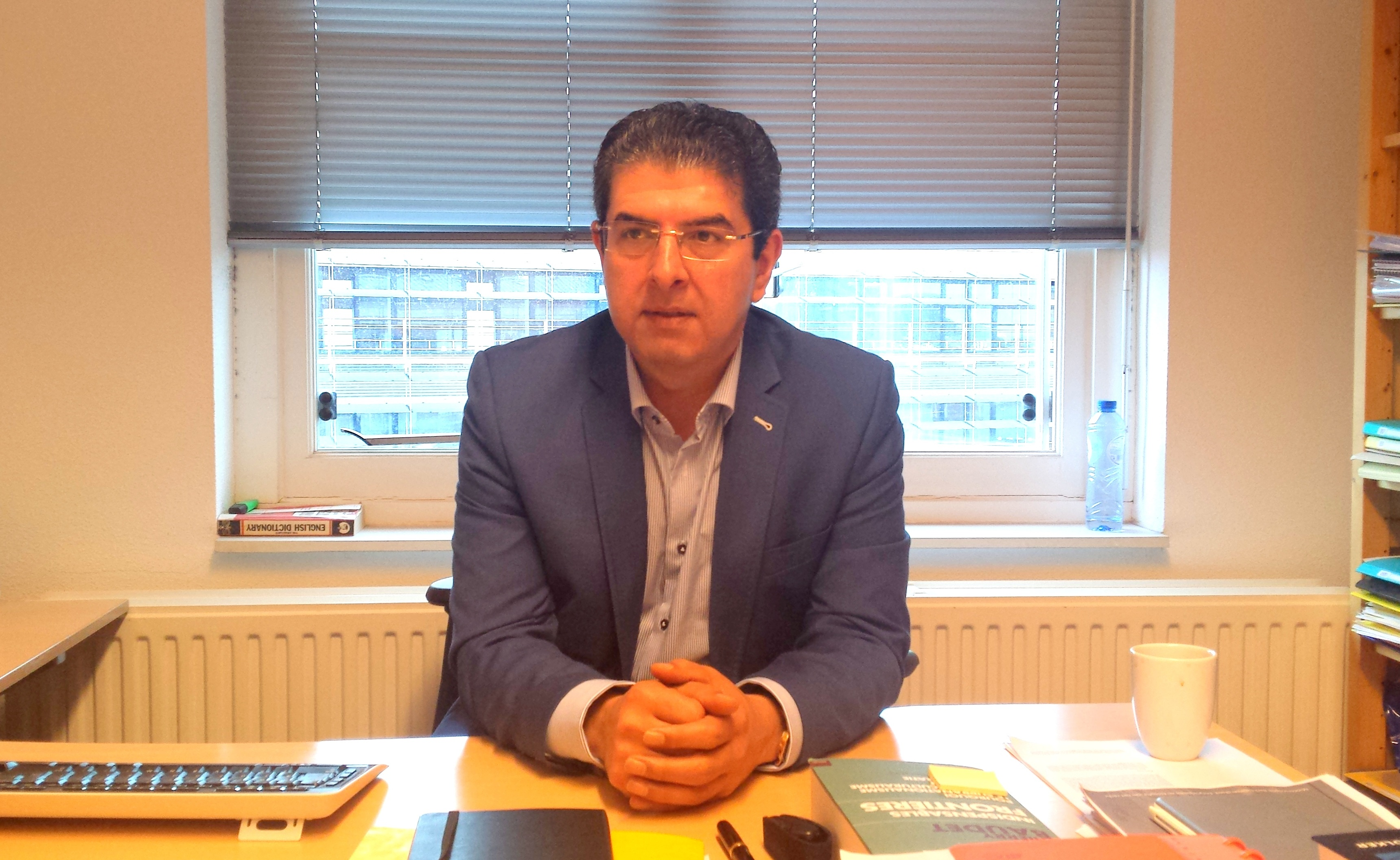 Afshin Ellian - Persian Dutch Scholar, writer, Law Professor at Leiden University, The Netherlands, 2015 - Photo by Persian Dutch Network